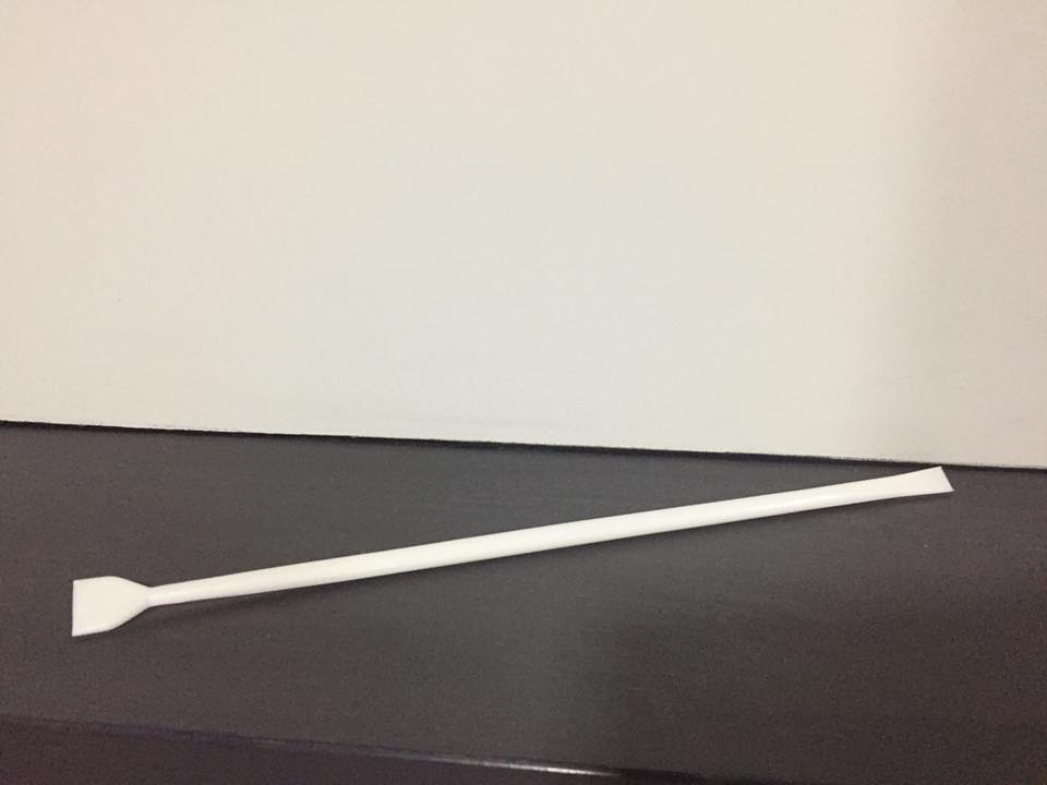 The policeman in which the whole piece make of plastic and at the end, there is spatula shape end.